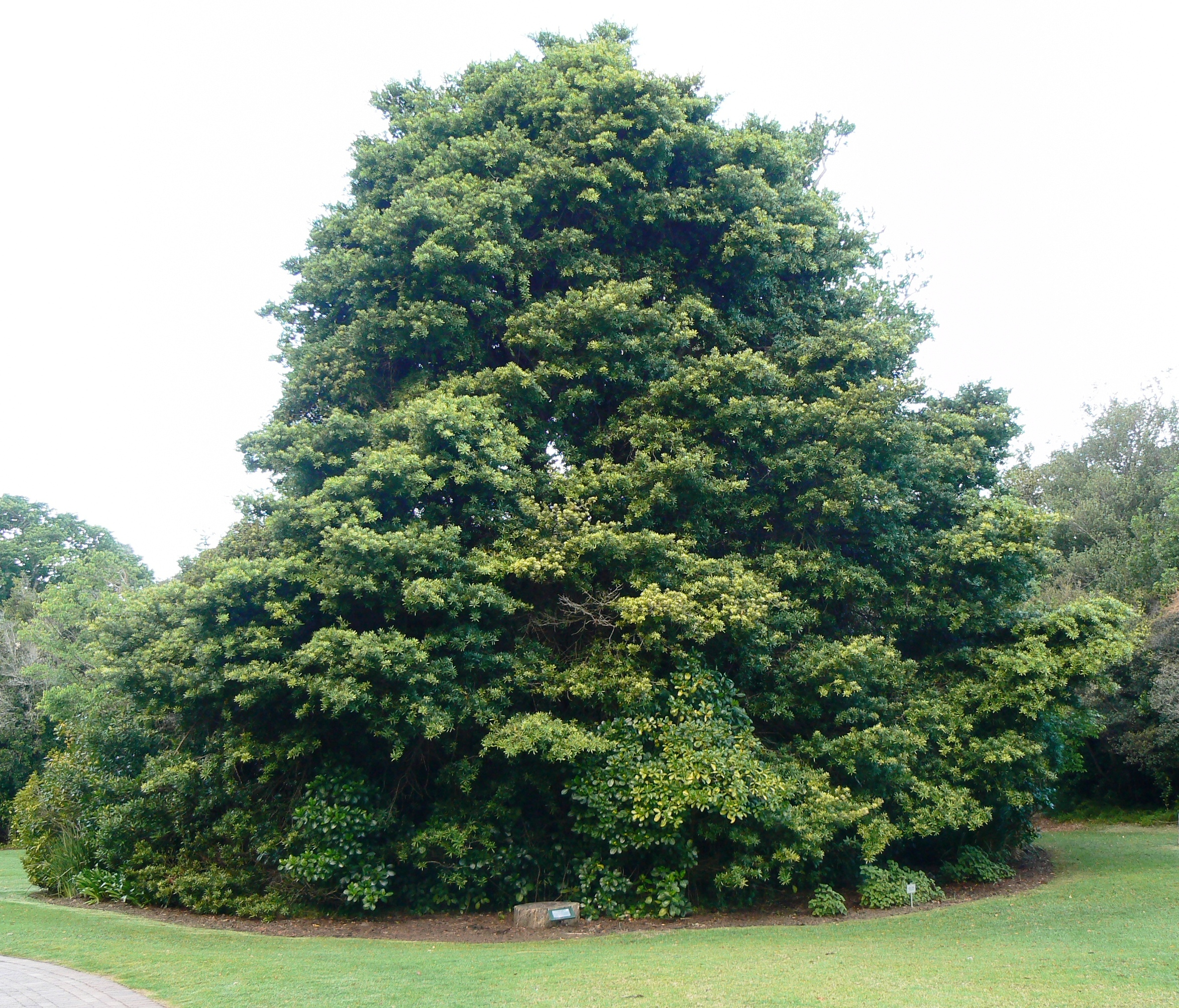 Photograph of a mature Podocarpus latifolius or Real Yellowwood tree. Cape Town.